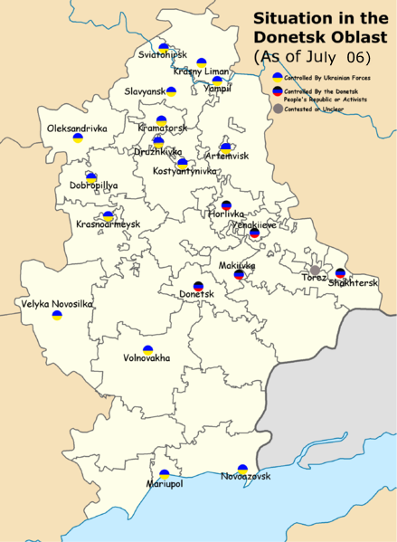 Map showing cities controlled by Ukrainian Forces or DPR (Donetsk People's Republic) forces.